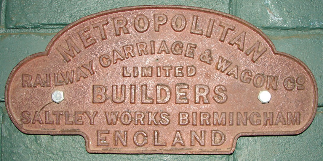 Metropolitan Railway Carriage & Wagon Co. works plateLocation: Darling, Western Cape